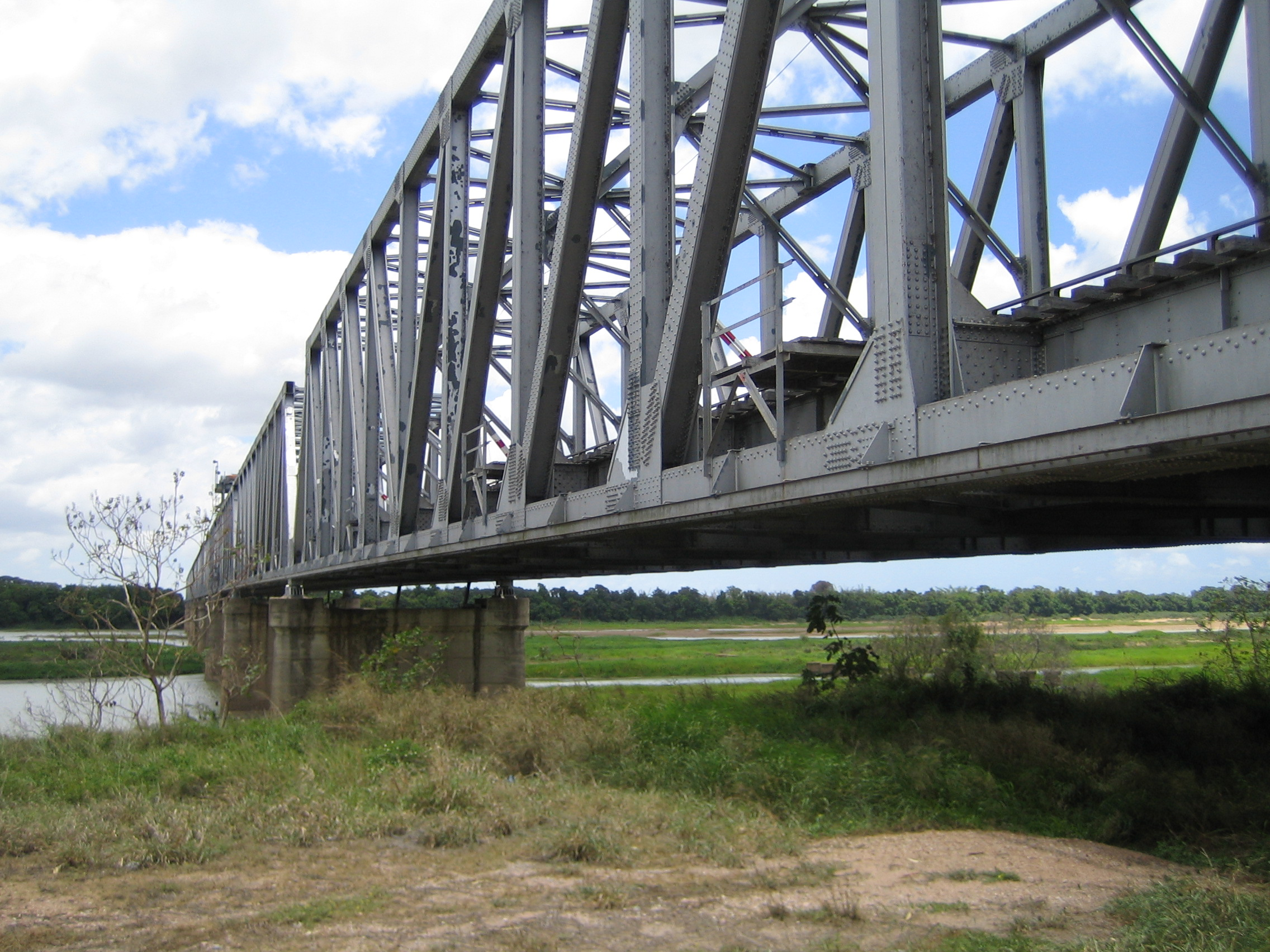 Burdekin Bridge taken Nov 2005 by G.Olsen